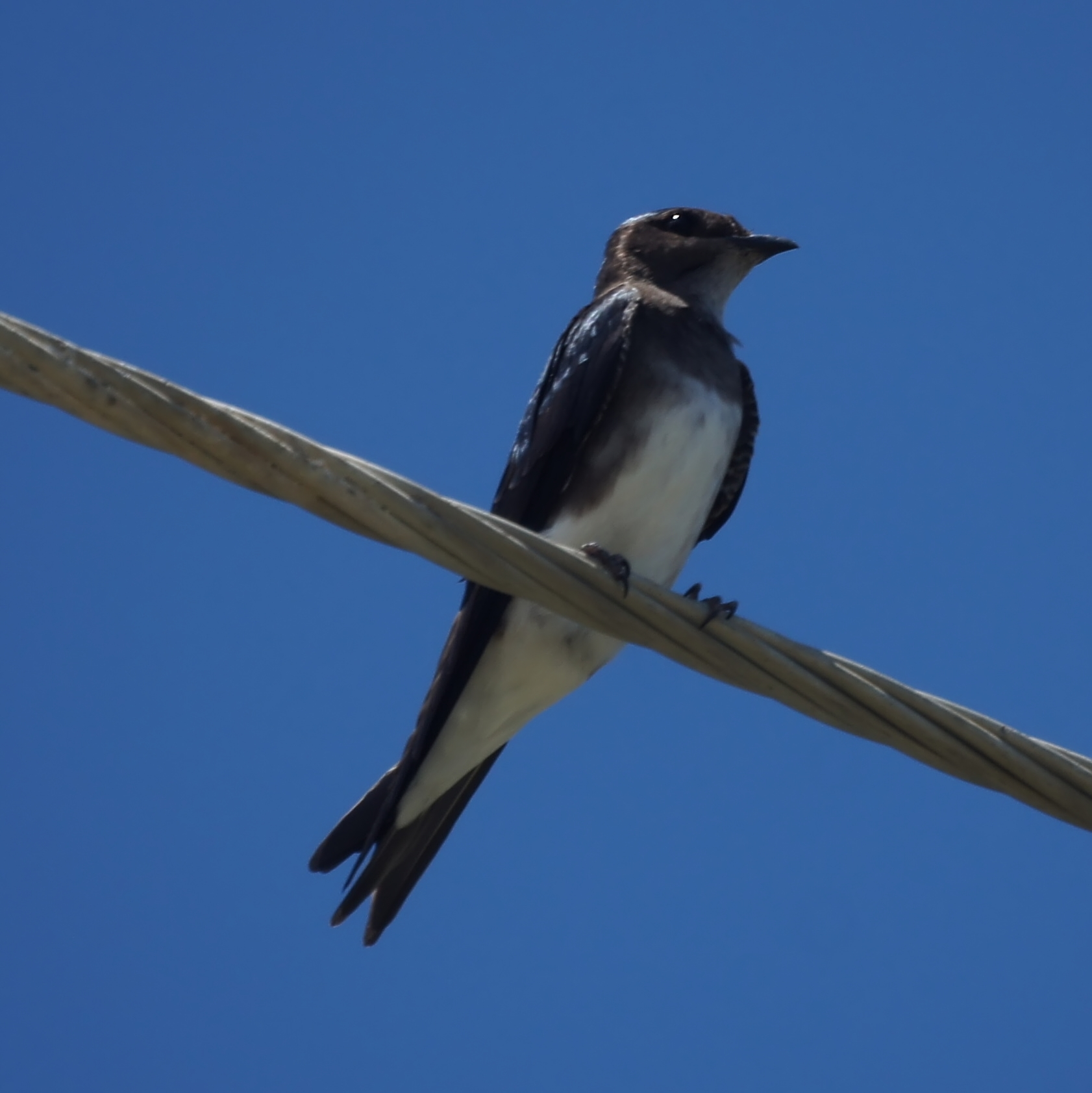 A Caribbean Martin in Tobago, Trinidad and Tobago.